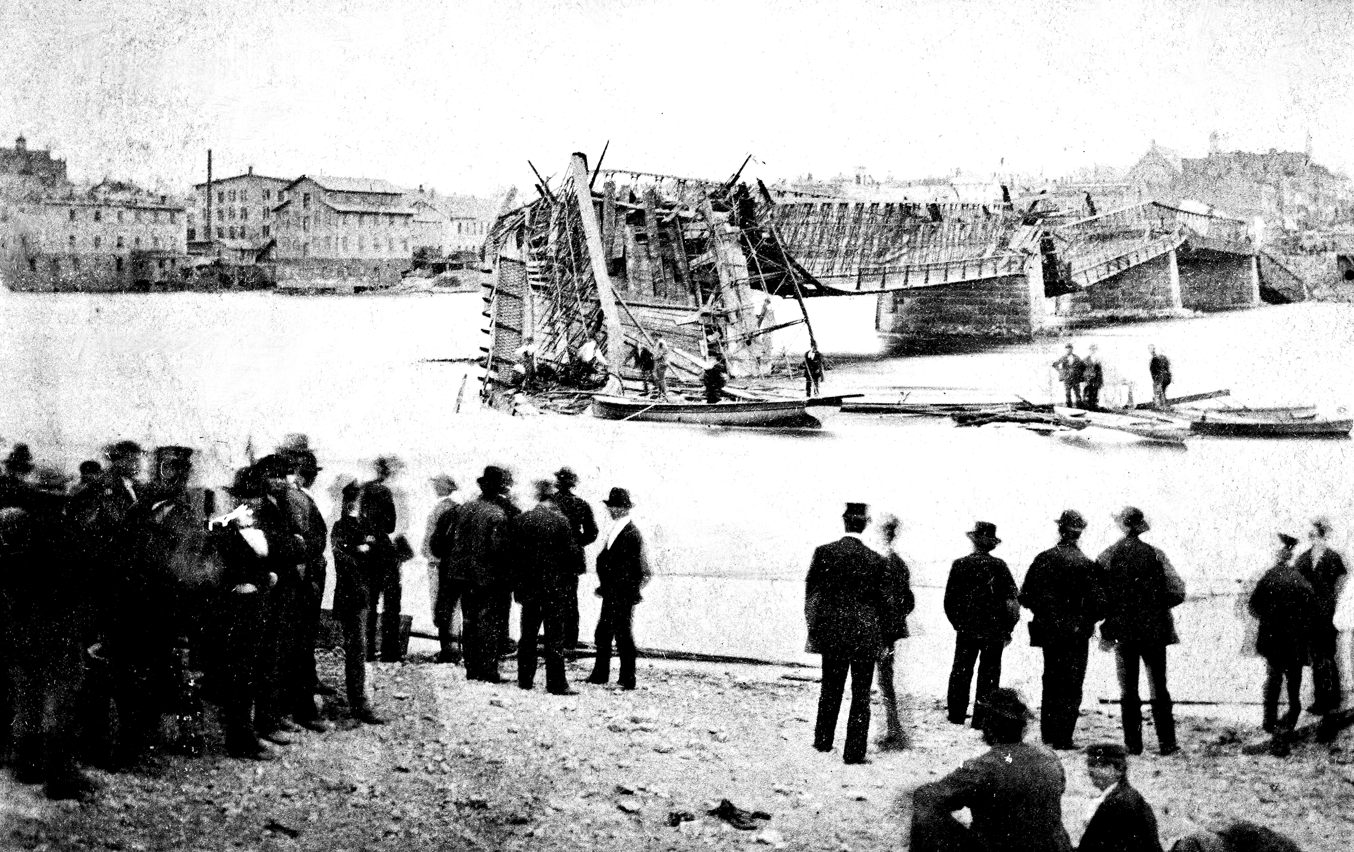 The baptisms likely took place between the people on the shore and the people in the river. The first span of the bridge (under water on the left) was the deadliest area of the bridge.